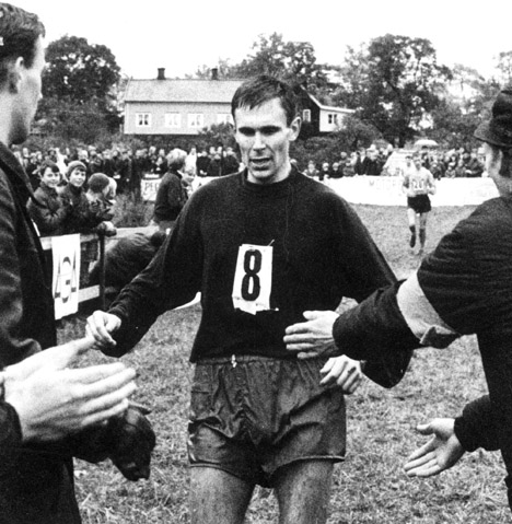 This Swedish photograph is in the public domain in Sweden because one of the following applies: The work is non-artistic (journalistic, …) and has been created before 1969. The photographer is not known, and cannot be traced, and the work has been created before 1944. If the photographer died before 1947, PD-old-70 should be used instead of this tag. You must also include a United States public domain tag to indicate why this work is in the public domain in the United States. Note that a few countries have copyright terms longer than 70 years: Mexico has 100 years, Jamaica has 95 years, Colombia has 80 years, and Guatemala and Samoa have 75 years. This image may not be in the public domain in these countries, which moreover do not implement the rule of the shorter term. Côte d'Ivoire has a general copyright term of 99 years and Honduras has 75 years, but they do implement the rule of the shorter term. Copyright may extend on works created by French who died for France in World War II (more information), Russians who served in the Eastern Front of World War II (known as the Great Patriotic War in Russia) and posthumously rehabilitated victims of Soviet repressions (more information).